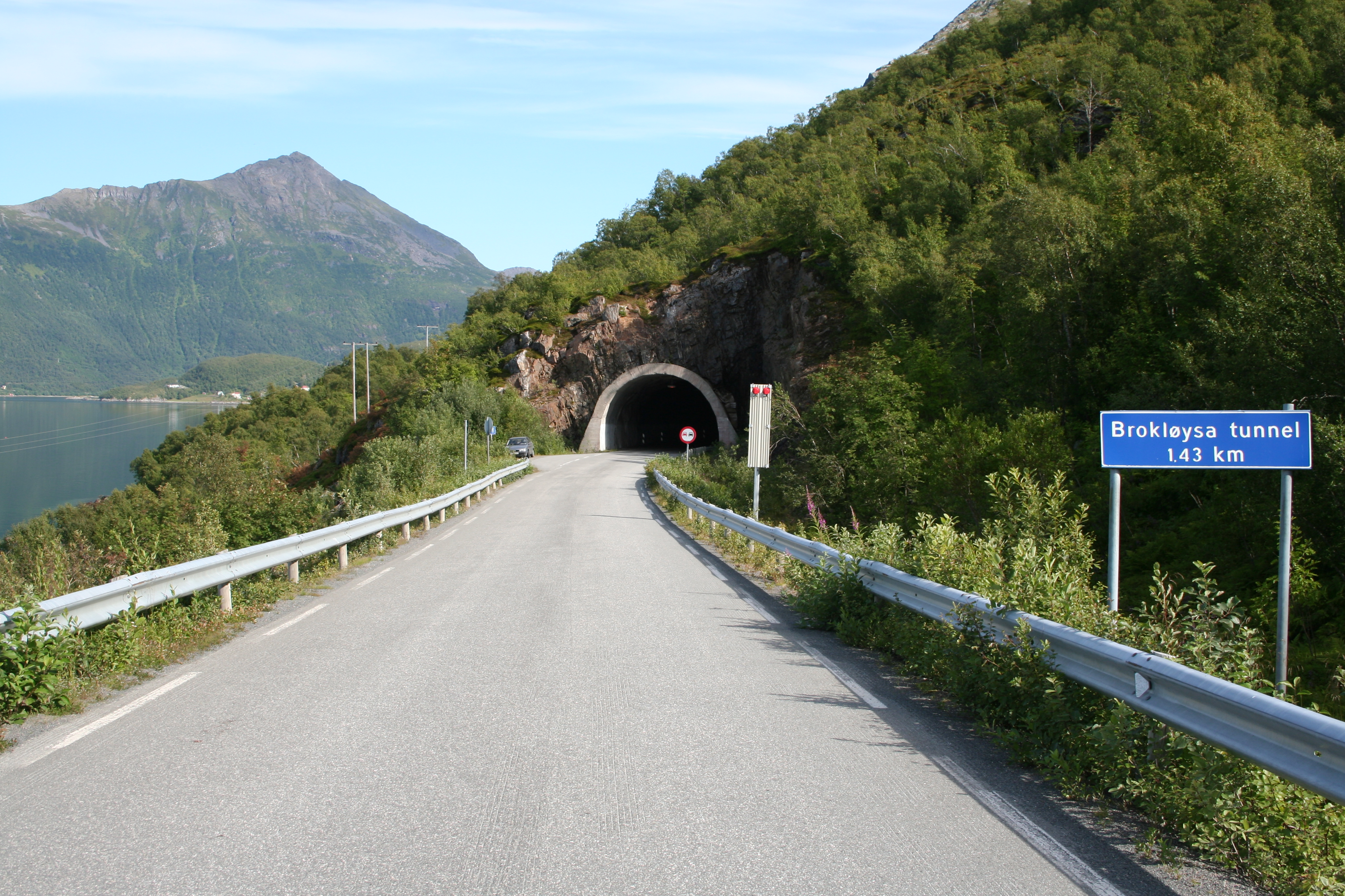 The western portal of Brokløysa tunnel in Norway. This picture was taken by me on 5 August 2006.